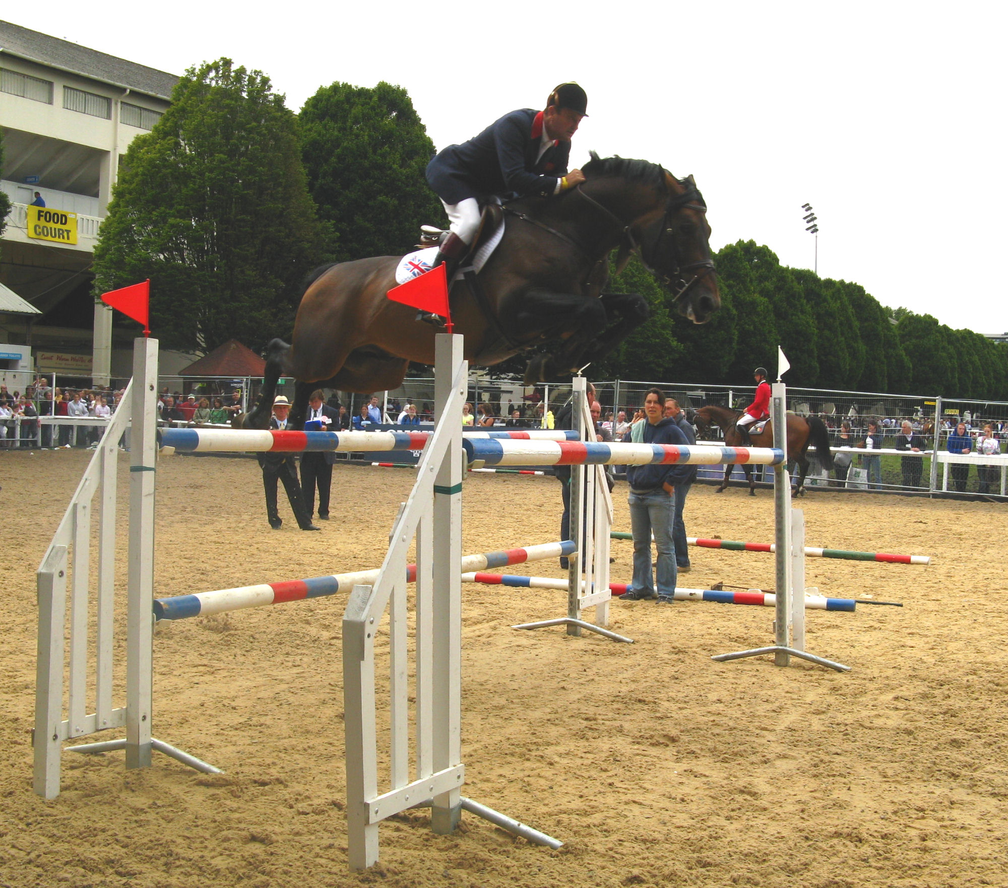 Robert_Smith_&_Vangelis_S_-_Dublin_CSIO5* - Samsung Aga Khan Nations Cup, Ireland